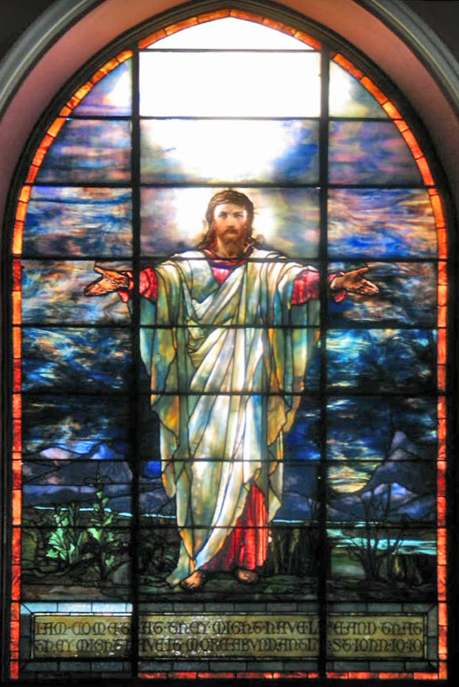 Jesus Window by Tiffany in Pullman Memorial Universalist Church, Albion, NY. 10' high, using the quote "I am come that they might have life, and that they might have it more abundantly." John 10:10